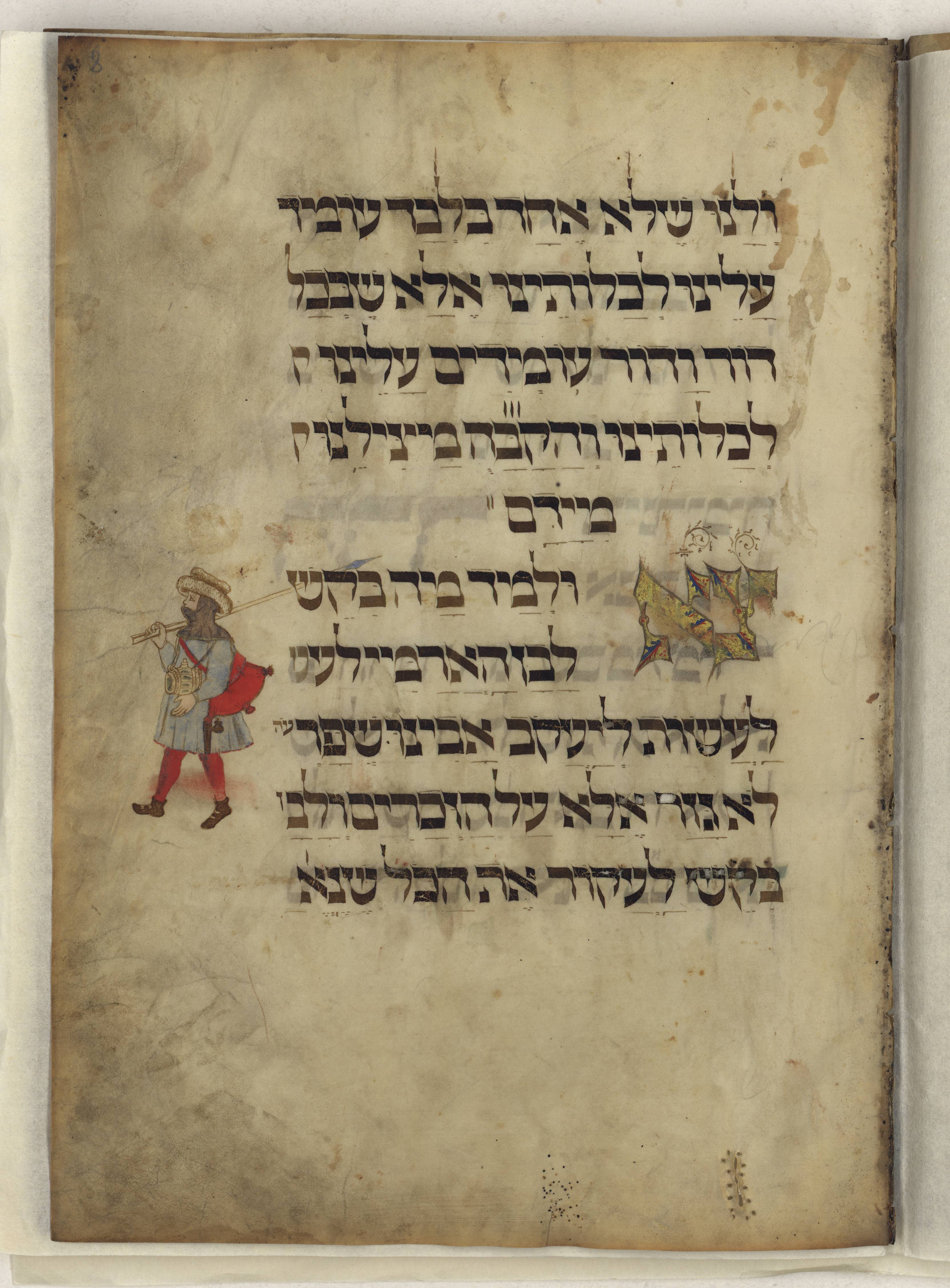 Rotschild Haggadah